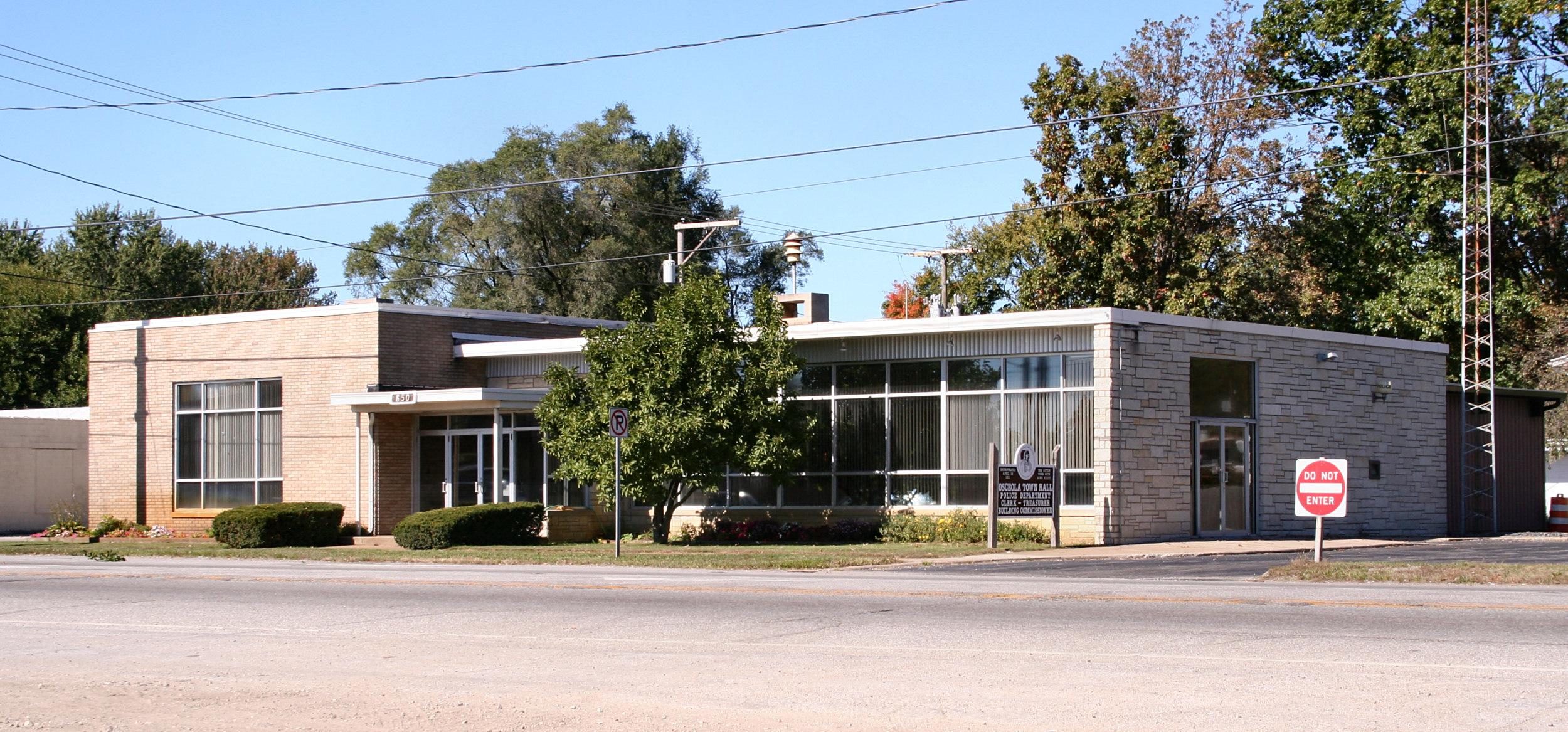 Osceola, Indiana city hall. Photo shot by Derek Jensen (Tysto), 2005-October-15